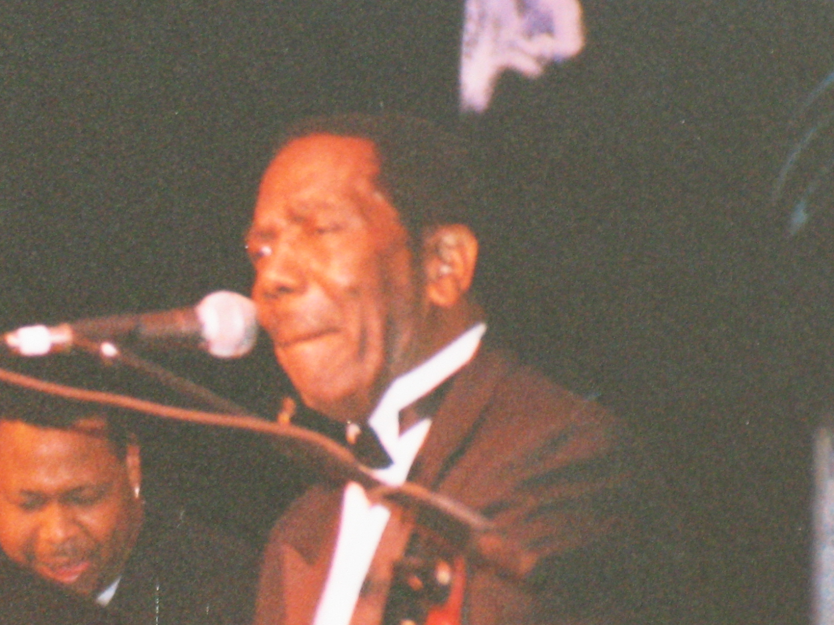 Jimmy Smith American Jazz Organist one month before his death on February 8 2005, he specialized in Hammond Organ. Photo by Jon Hammond ©JON HAMMOND Intl.